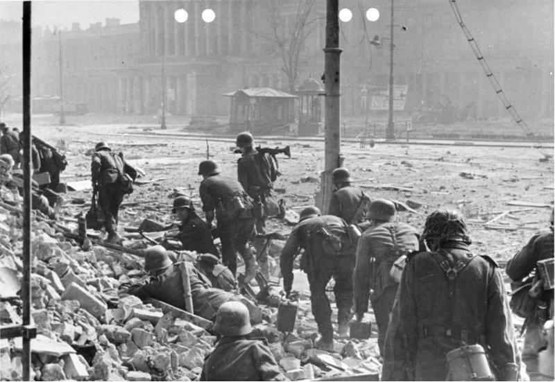 Warsaw Uprising: German soldiers at Theater Square with the National Theater visible in the back.